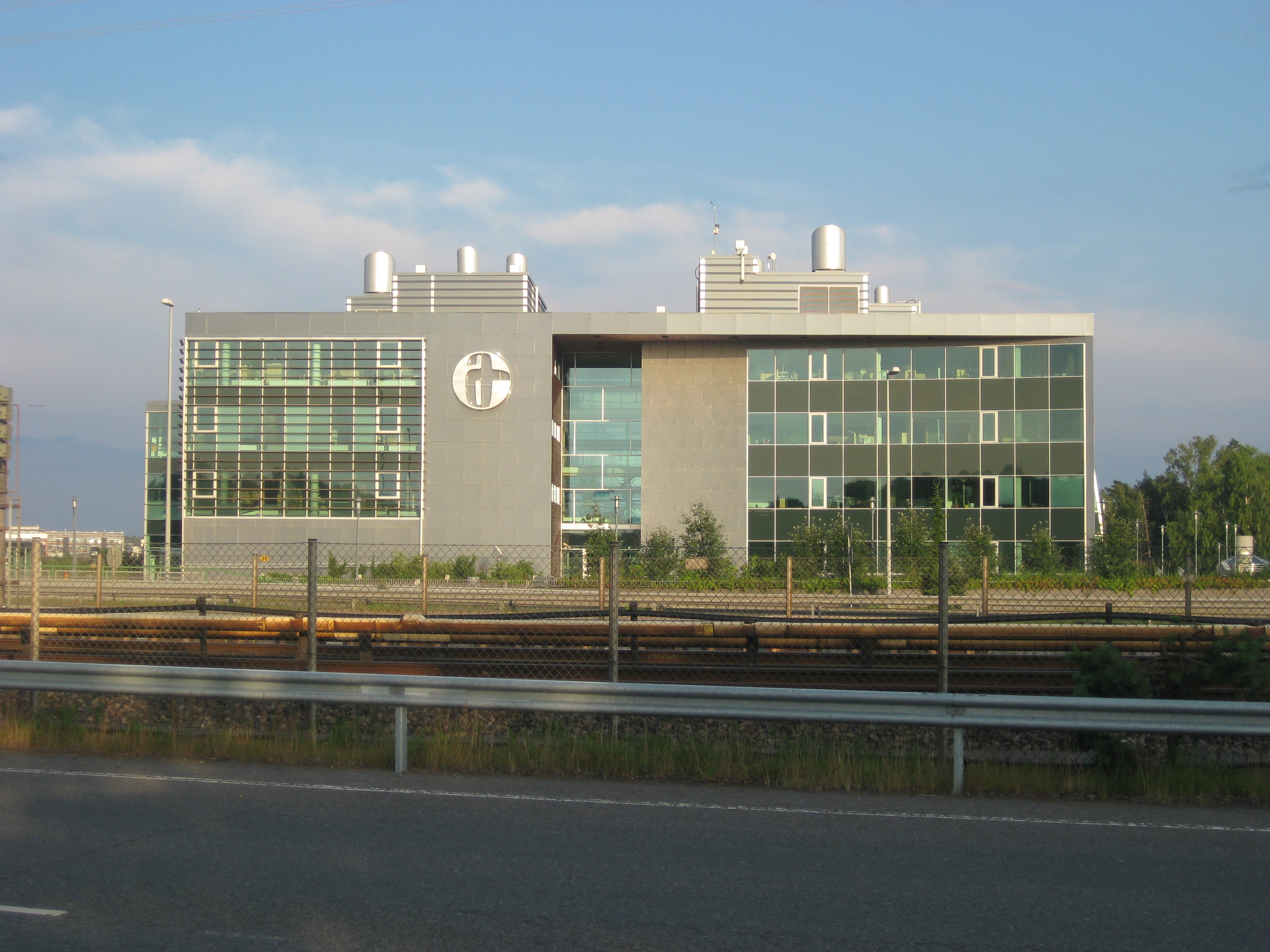 A-Lehdet (Finnish magazine company) headquarters in Kulosaari, Helsinki